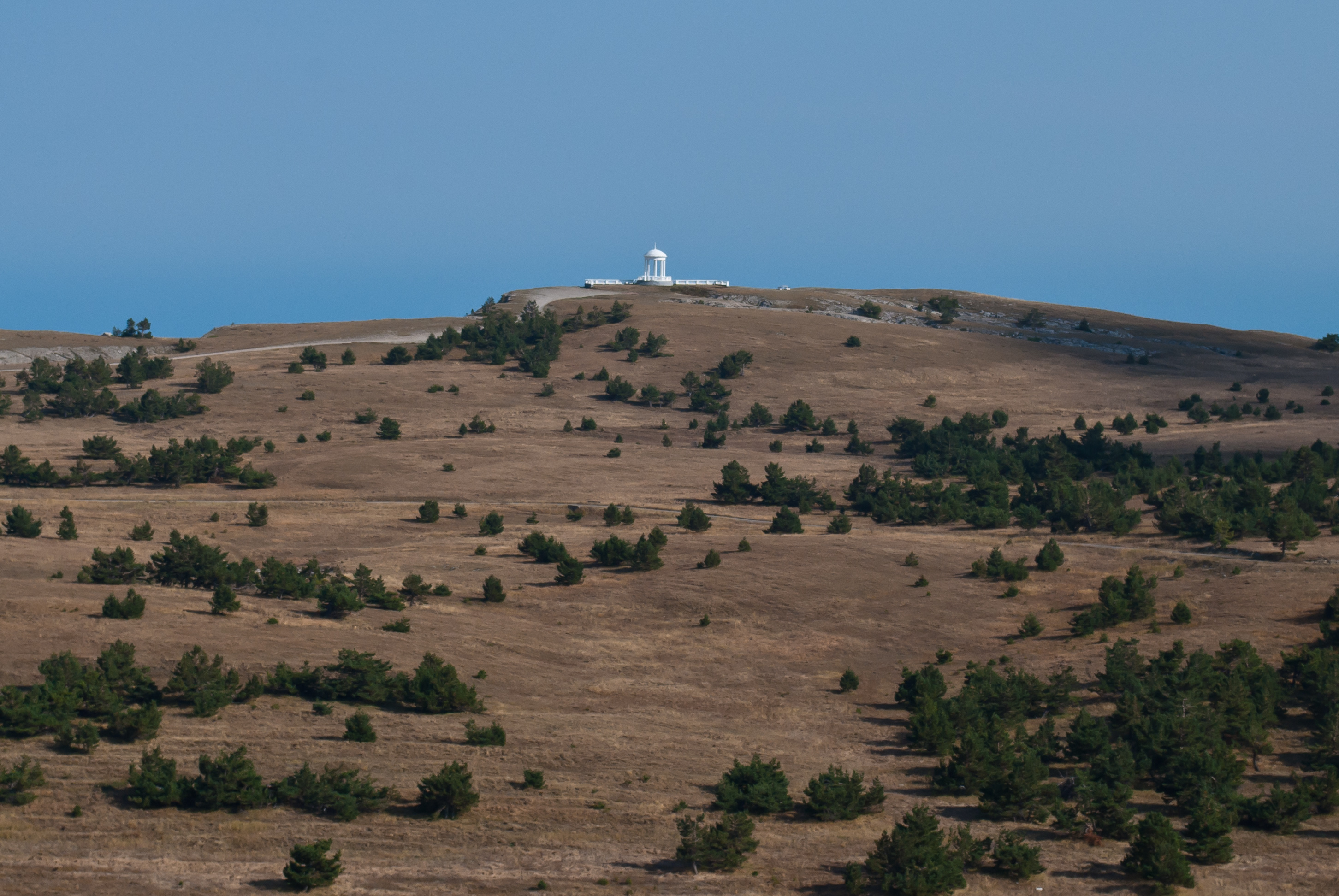 The Wind Pavilion (Crimea)